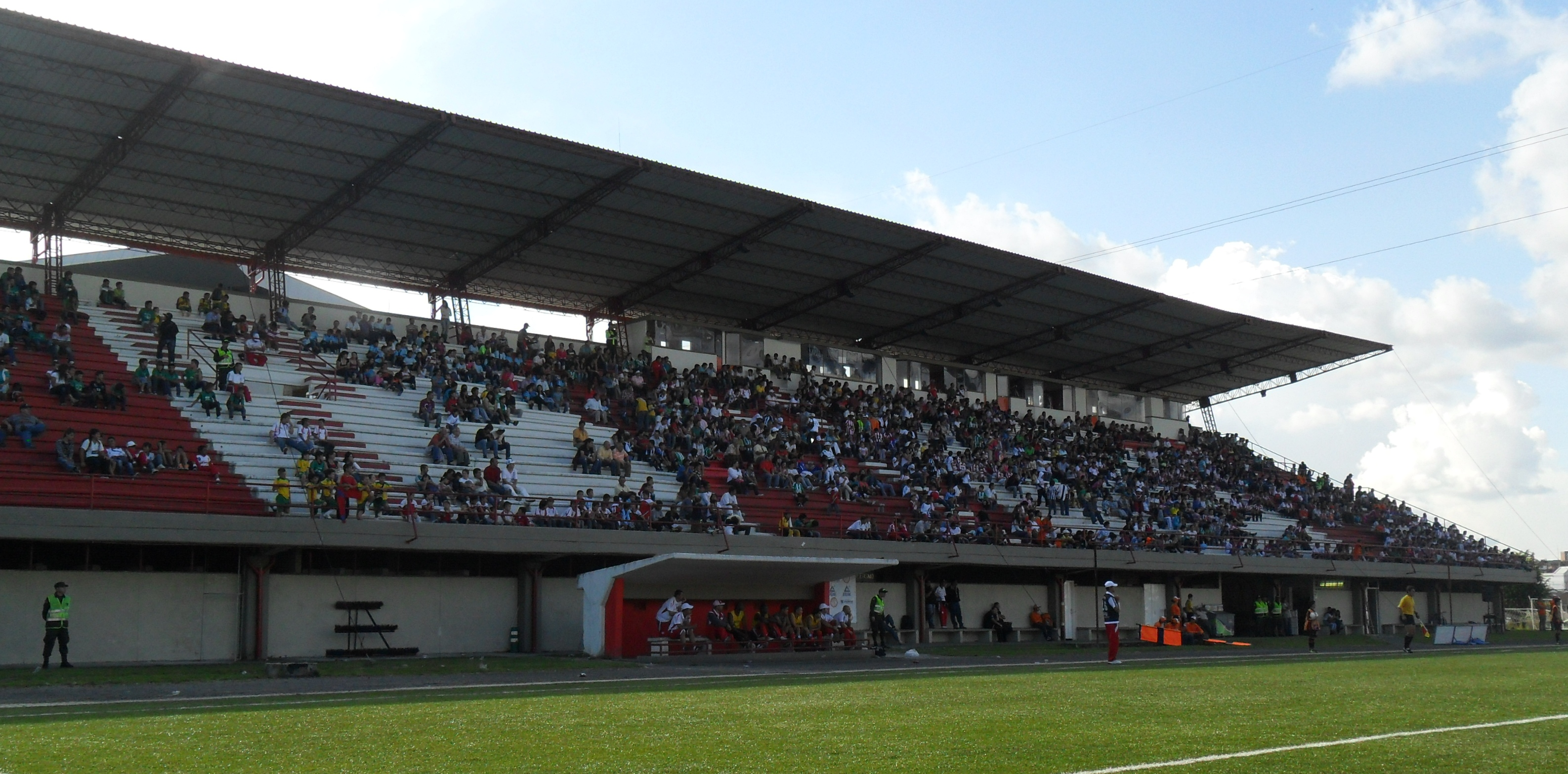 Tribuna occidental del Estadio Alberto Grisales en el municipio de Rionegro, Antioquia.